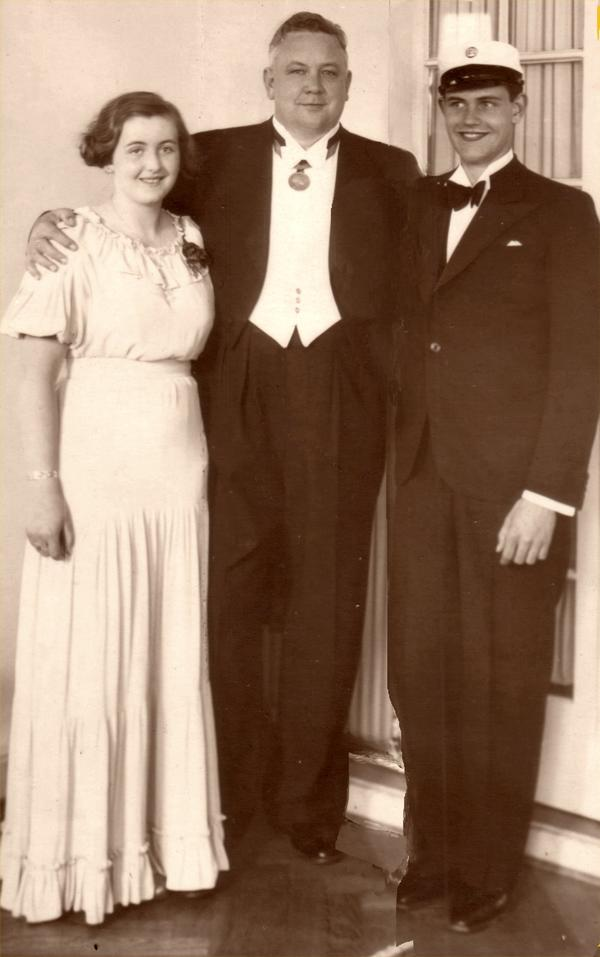 Lauritz Melchior with his children